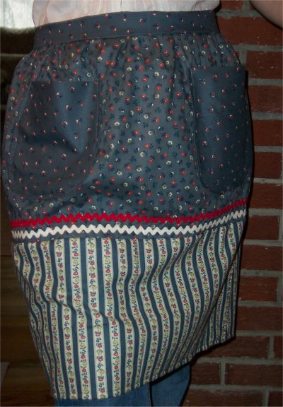 Rickrack shown on this handmade country half-apron.